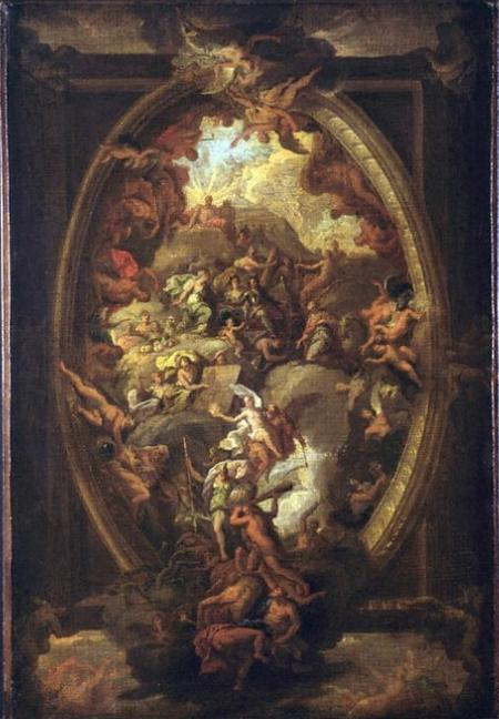 Sketch for the Painted Ceiling of the Greet Hall, Greenwich Hospital: William and Mary Presenting the Cap of Liberty to Europe, about 1710, Sir James Thornhill V&A Museum no. 812-1877 Techniques - Oil on canvas Place - London, England Dimensions - Height 96.5 cm (unframed), Width 66 cm (unframed) Object Type - This is a preliminary study, in effect a design, for part of the decorative scheme in the Painted Hall at Greenwich Hospital, London, newly designed by Christopher Wren. This sketch is not highly finished, and the painting technique is relatively crude but very vigorous. Subjects Depicted - The monarchs, William and Mary, are shown attended by the figures of Concord and the Cardinal Virtues. The King presents the personifications of Peace and Liberty to Europe and tramples on Tyranny and Arbitrary Power. The figure of Architecture holds a drawing of part of the Hospital (which was erected partly as a memorial to the Queen). Time rescues Truth; Wisdom and Virtue destroy the Vices; and Apollo and the Hours are seen in the Heavens. The Signs of the Zodiac, presided over by the Seasons, are grouped around the oval frame. The present ceiling, executed in 1708/9-1712 varies in some respects from this design. People - Thornhill and his assistants worked intermittently on the Painted Hall at Greenwich Hospital for l9 years, completing two vast ceiling paintings and five murals that celebrate the Protestant succession of English monarchs from William and Mary (reigned 1689-1702) to George I (reigned 1714-1727).